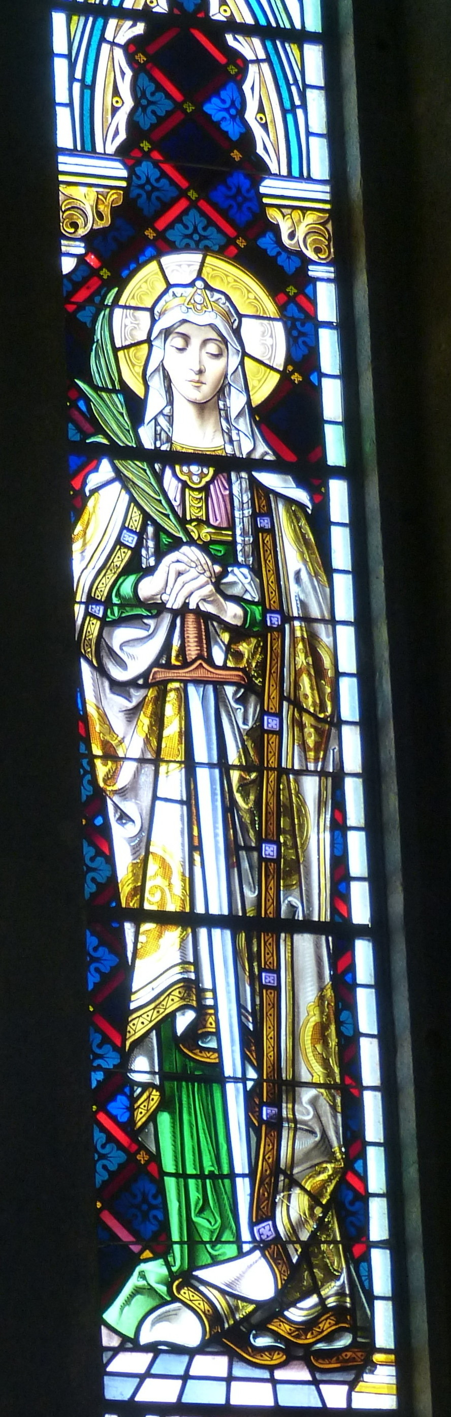 Arucas ( Gran Canaria ). San Juan Bautista church ( 1917 ): Stained glass windows showing Saint Saturnina.